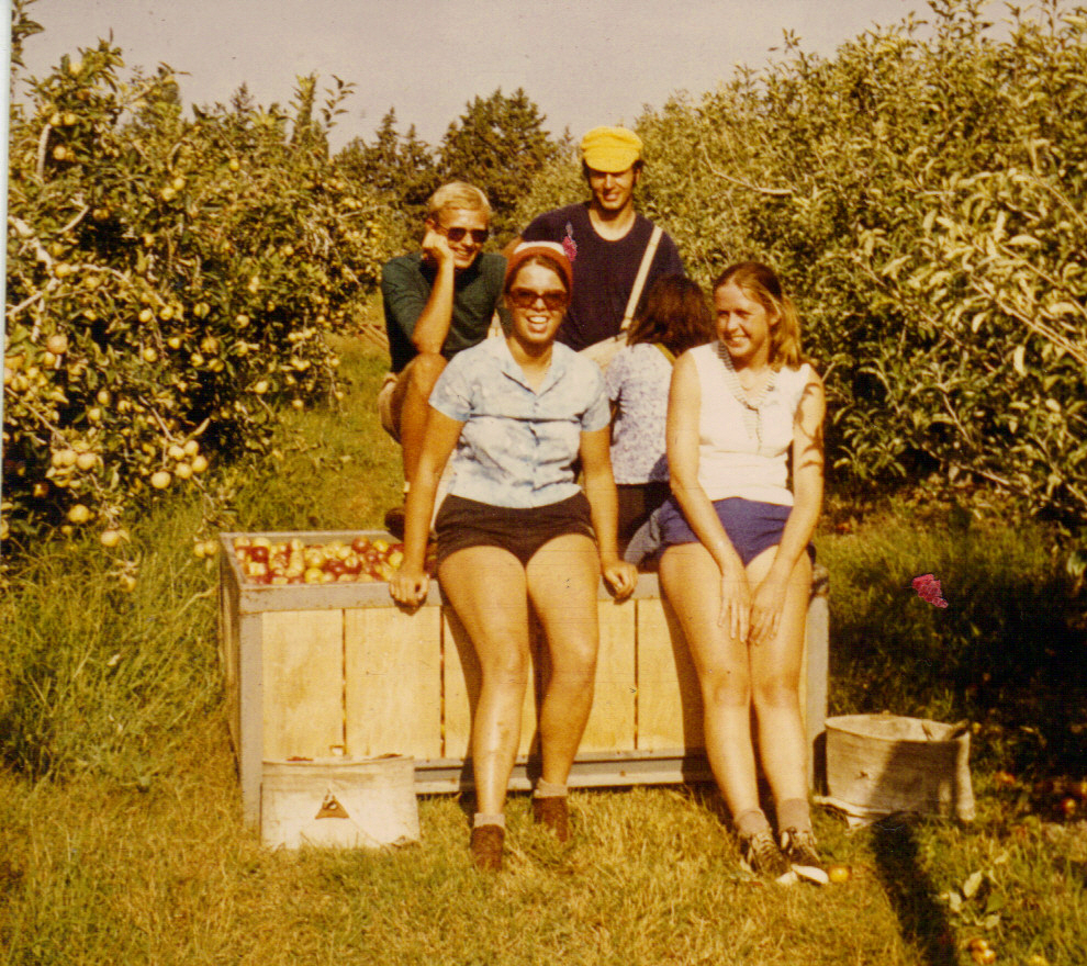 Austrian Kibbutz volunteers at Ein HaShofet working in apple orchard, summer of 1973. Copy from my picture album